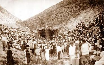 Battalion members in holiday clothes, gathered at the quarry near Ein Harod to hear a concert by violinist yasha hefetz.